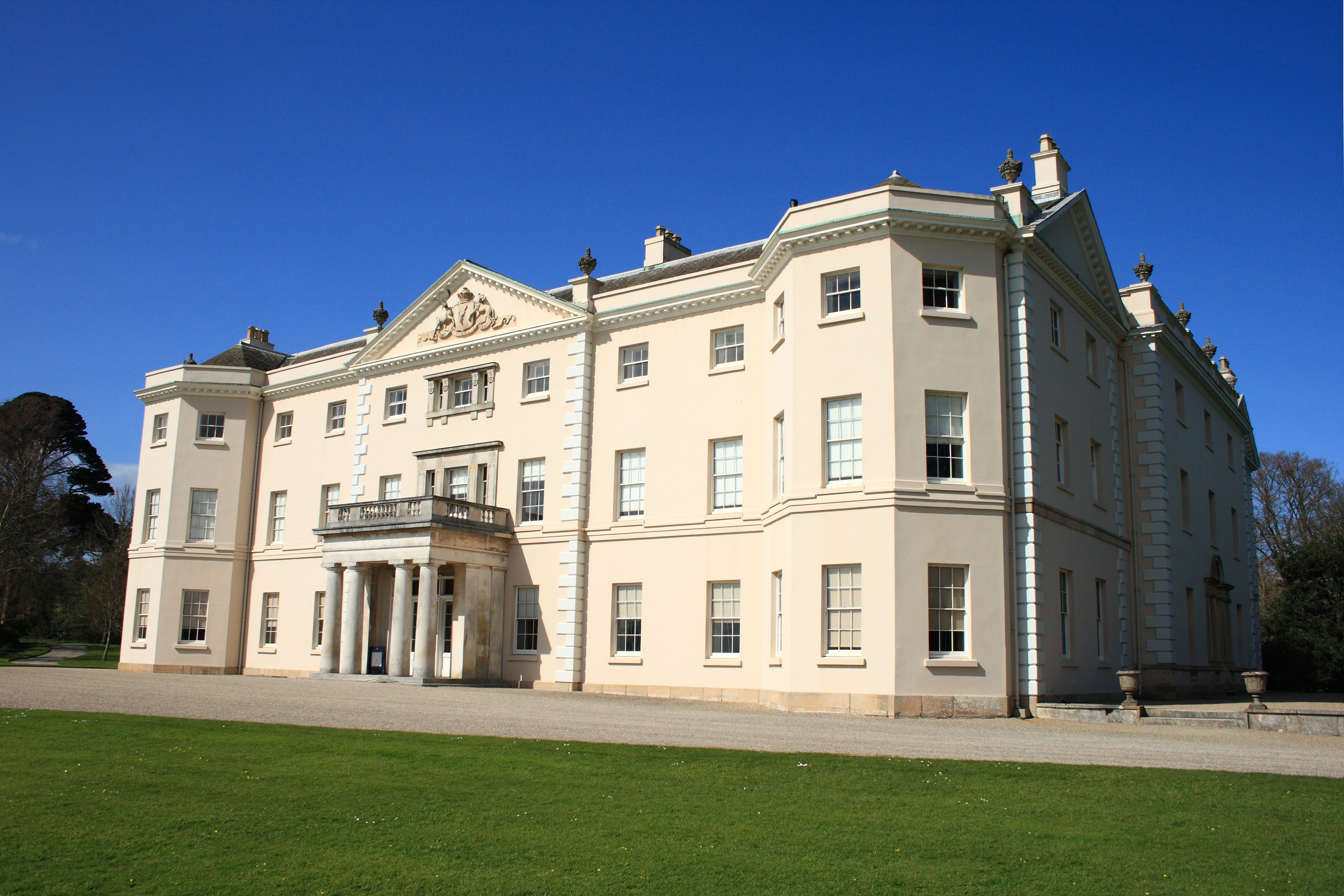 Front view of the Saltram House mansion in Plymouth.